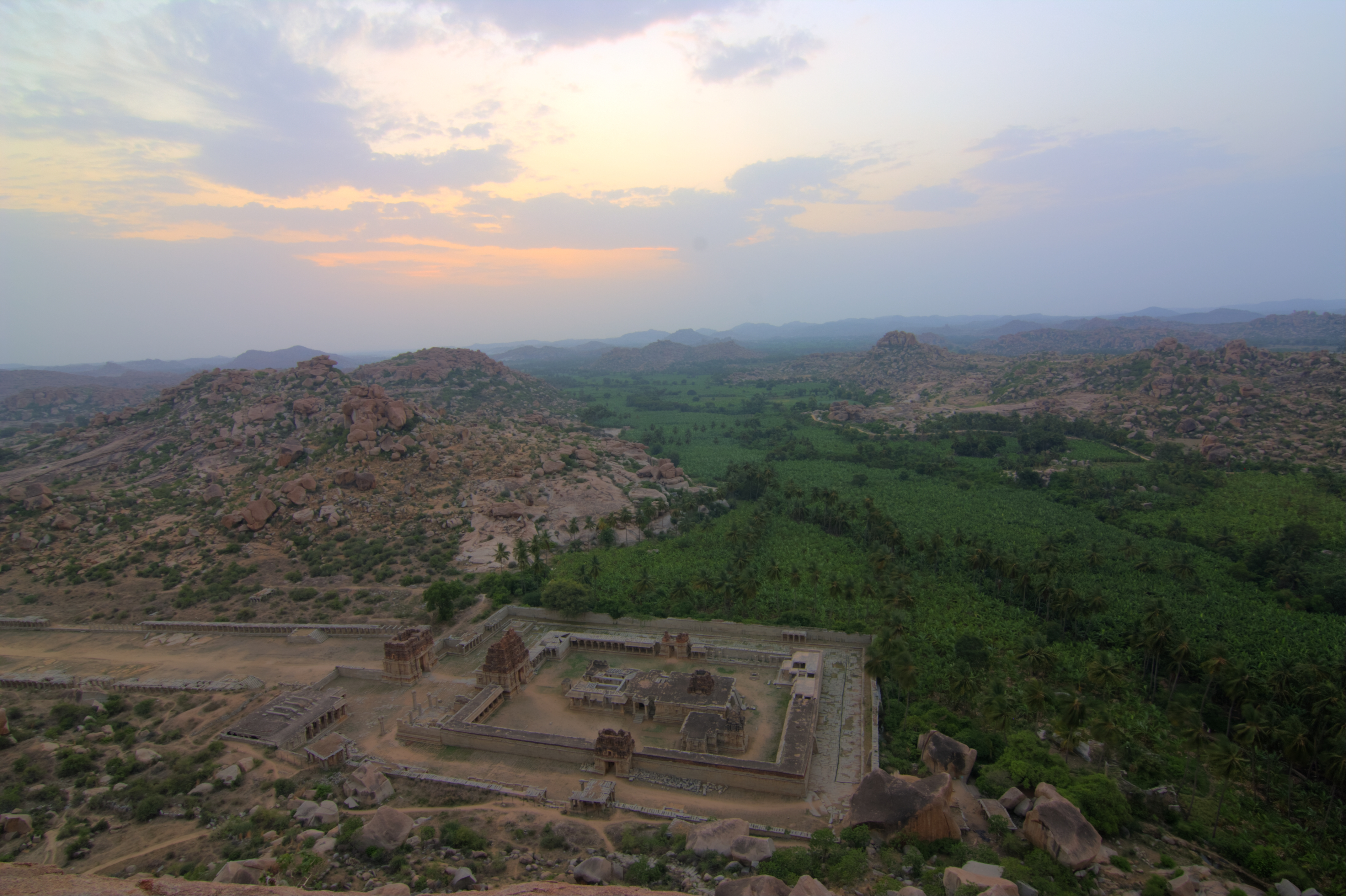 Achyutaraya (Triuvengalantha) Temple